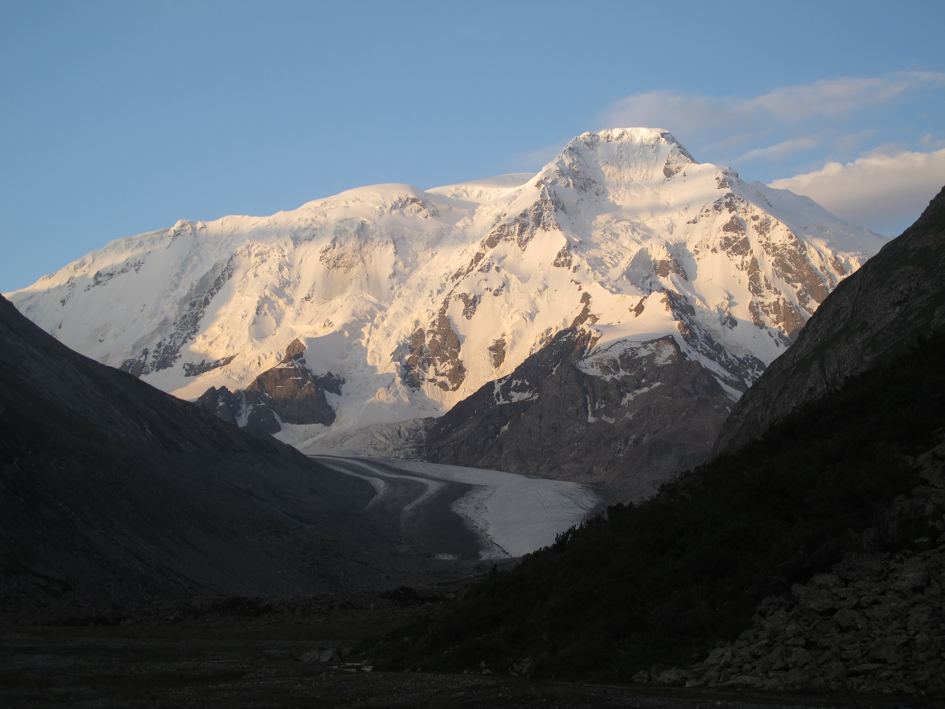 Karakol peak - the highest mountain of Terskey Alatau